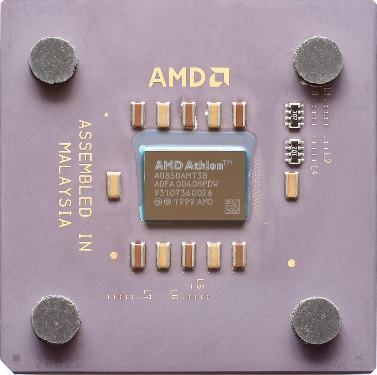 CPU AMD Athlon Thunderbird. Wrong filename.